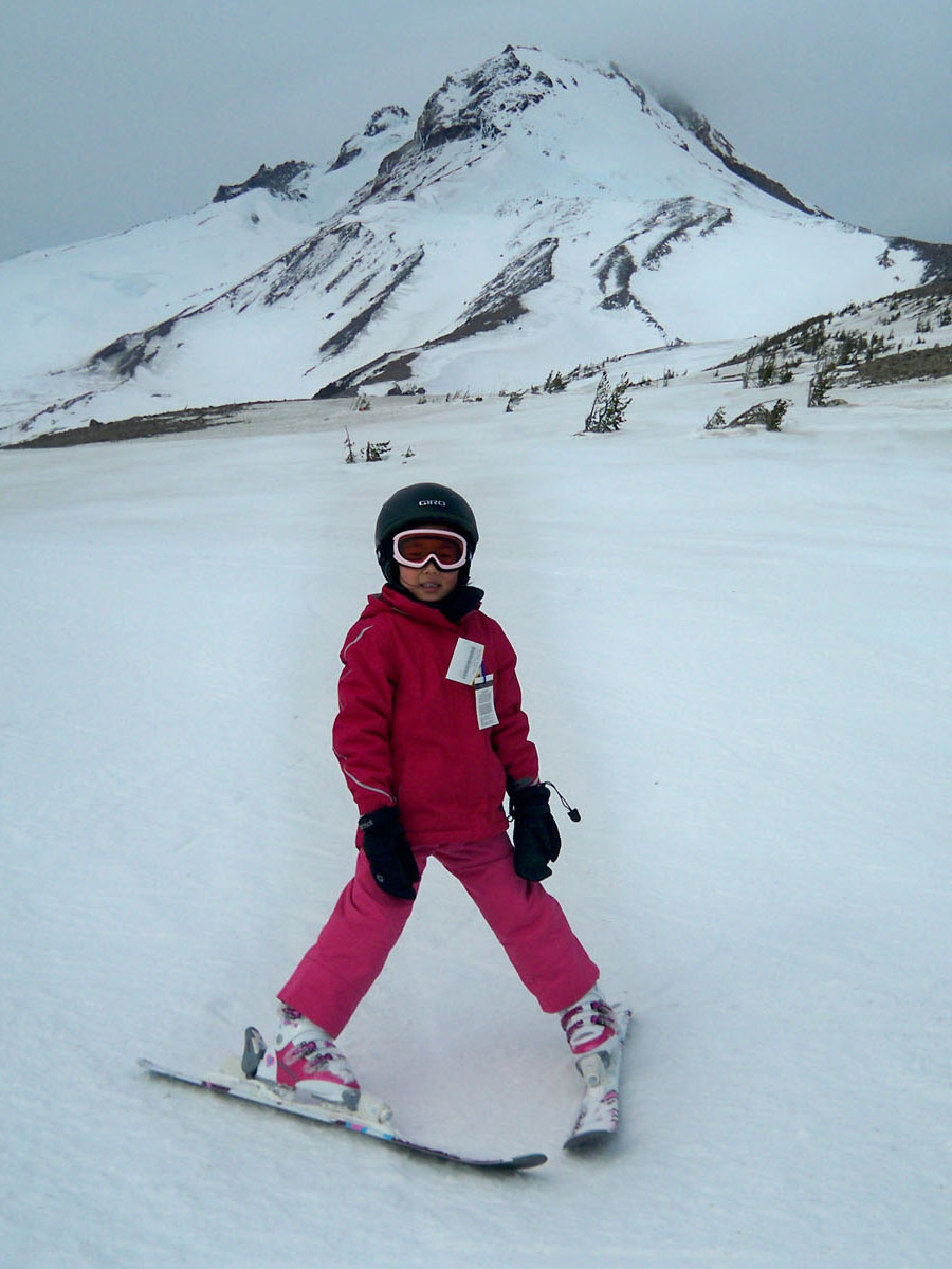 Skiplough turn on Mt Hood